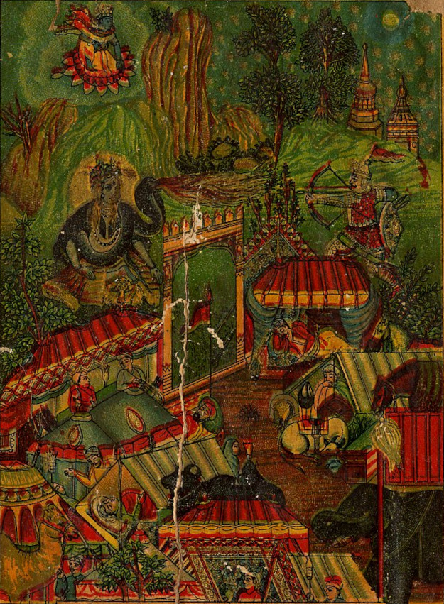 Pictorial label used for the advertisement and sale of bales of cloth and individual fabric lengths; printed on paper. An illustation from the Mahābhārata: Arastthaman propitiates Śiva before making a night attack on the Pandava camp. Designed in India and printed in British Isles for export to India. This is episode of Saupatika-parwa drawn by Artist Daswant and Mahesh.